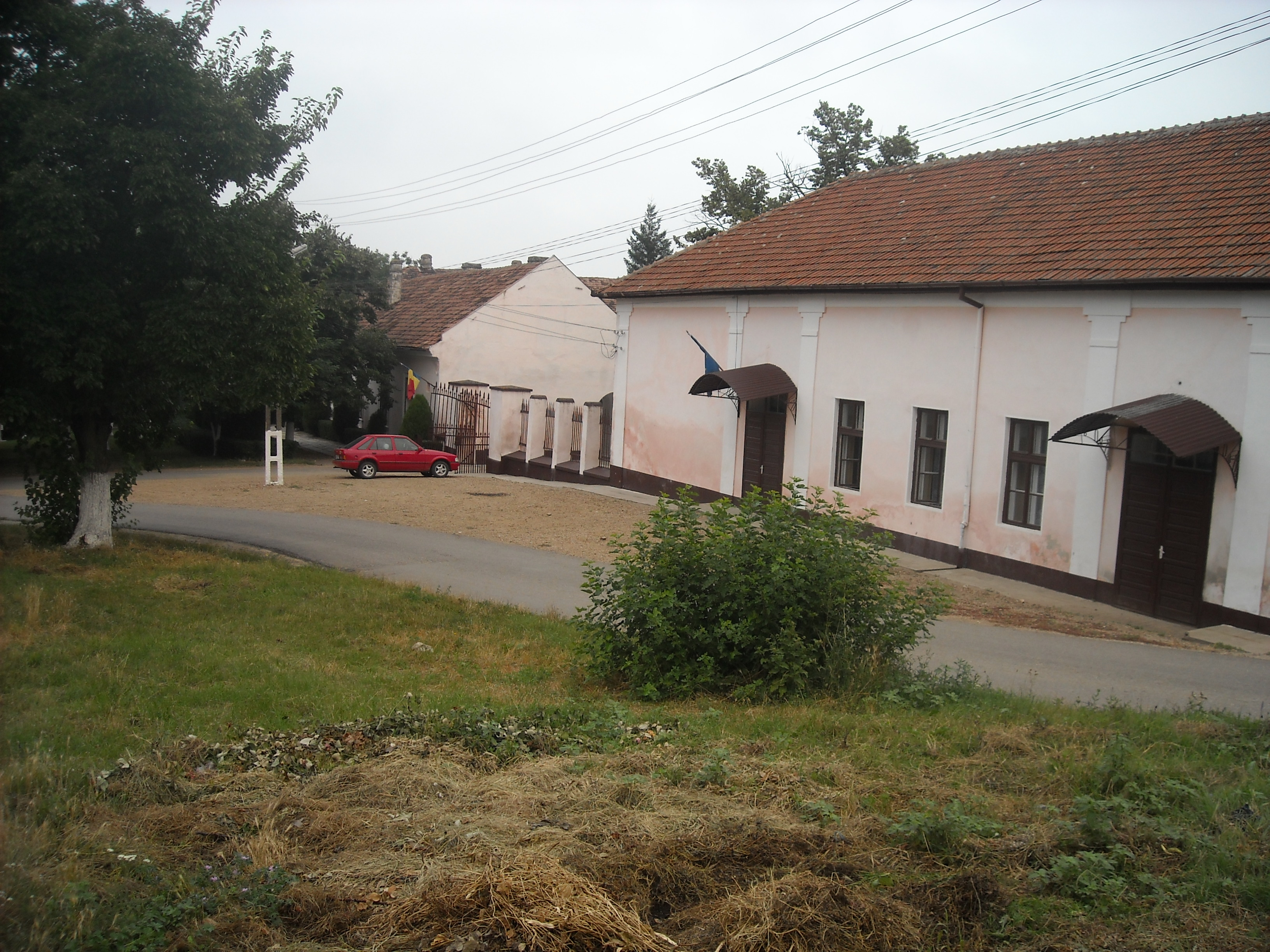 the former country mansion of the Bohus family, now museum and community center in Şiria/Világos/Hellburg, Romania (this is the place where the peace treaty was signed in 1849 between the Hungarian rebels and the Russian interventionary army)